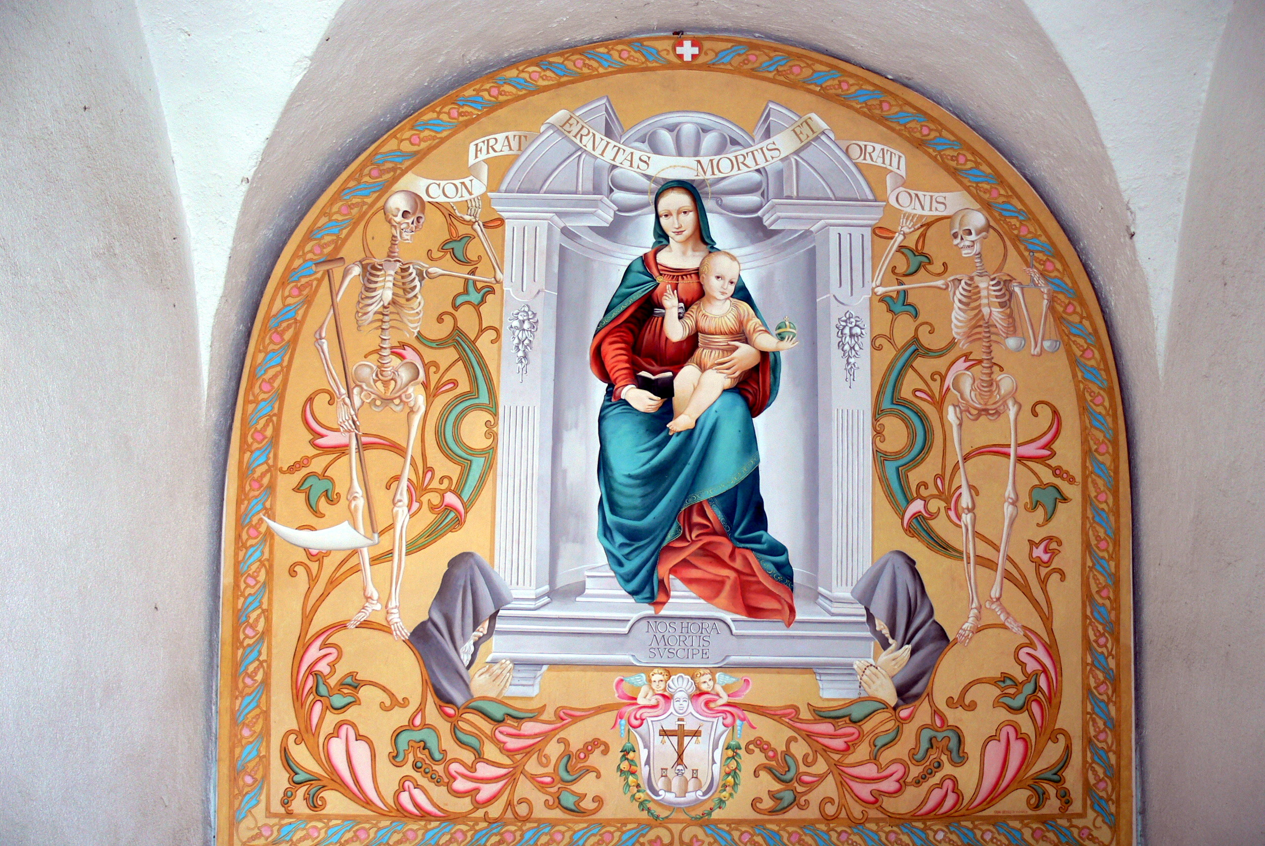 Rasa ( Intragna / Locarno ). Saint Anne church: Memorial of confraternity of death and prayer.